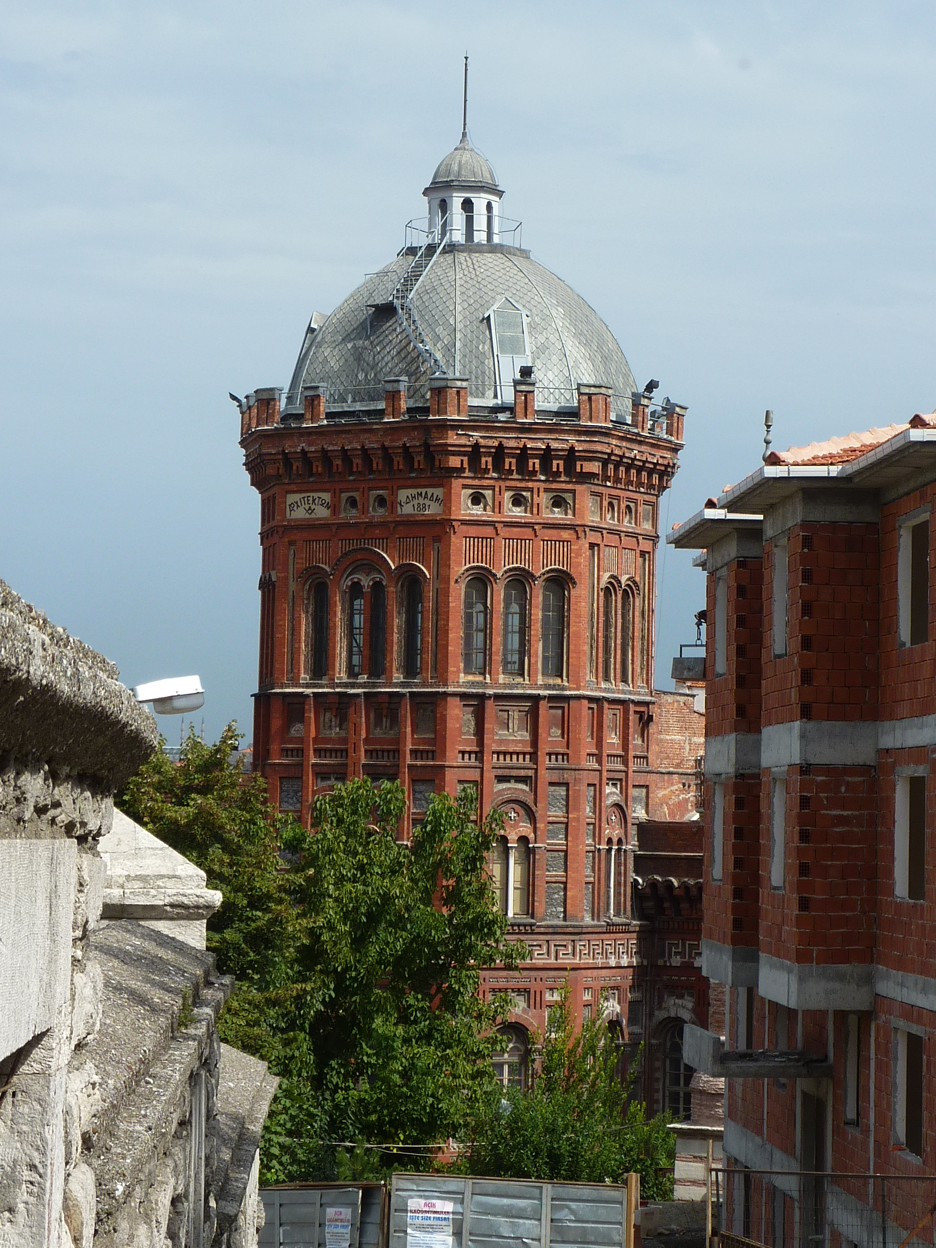 Phanar Greek Orthodox college